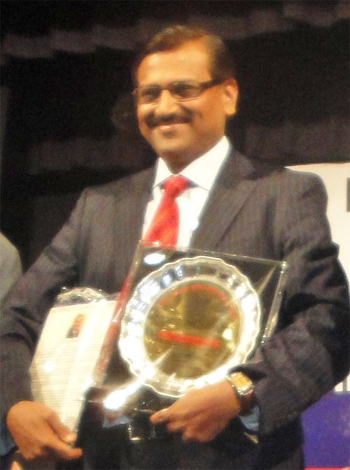 The Awards Committee of 12th Annual Convention on Leadership has unanimously decided to confer ' Prof. Dharni Sinha Memorial Award for Excellence in Management Education' to Prof Dr Uday Salunkhe.